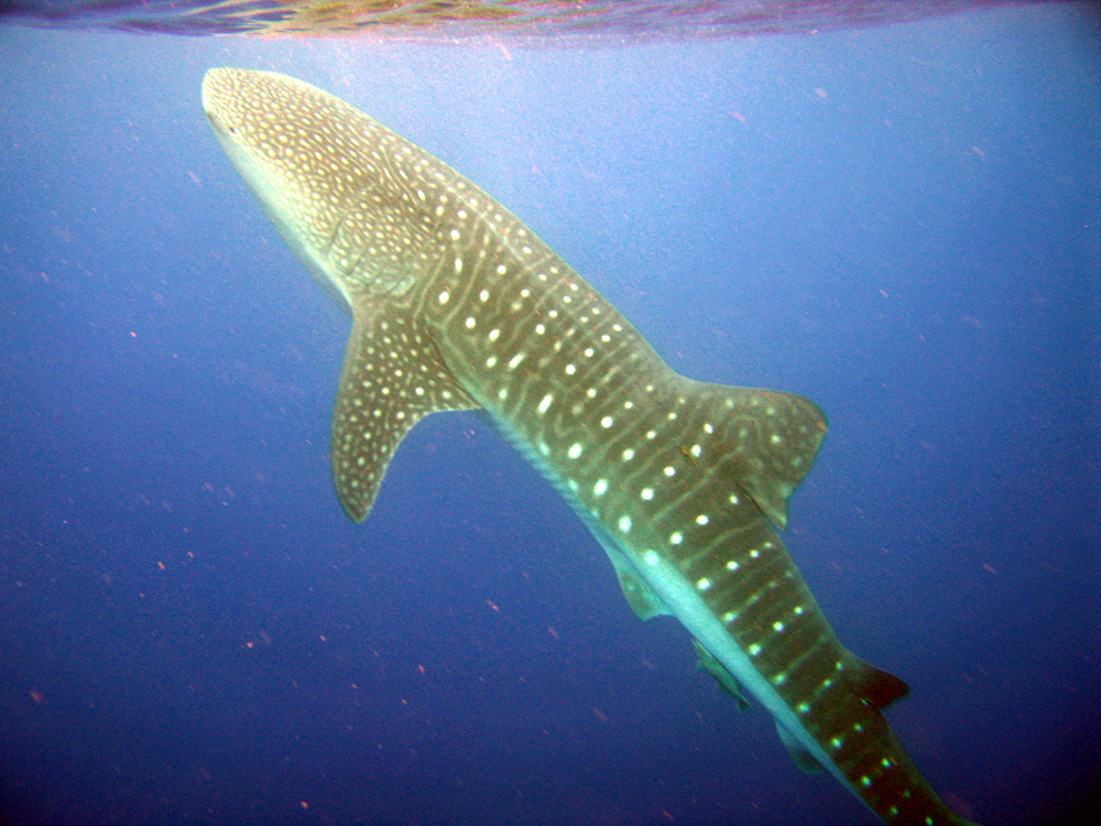 A whale shark swims near Utila, Honduras